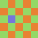 Recoll logo